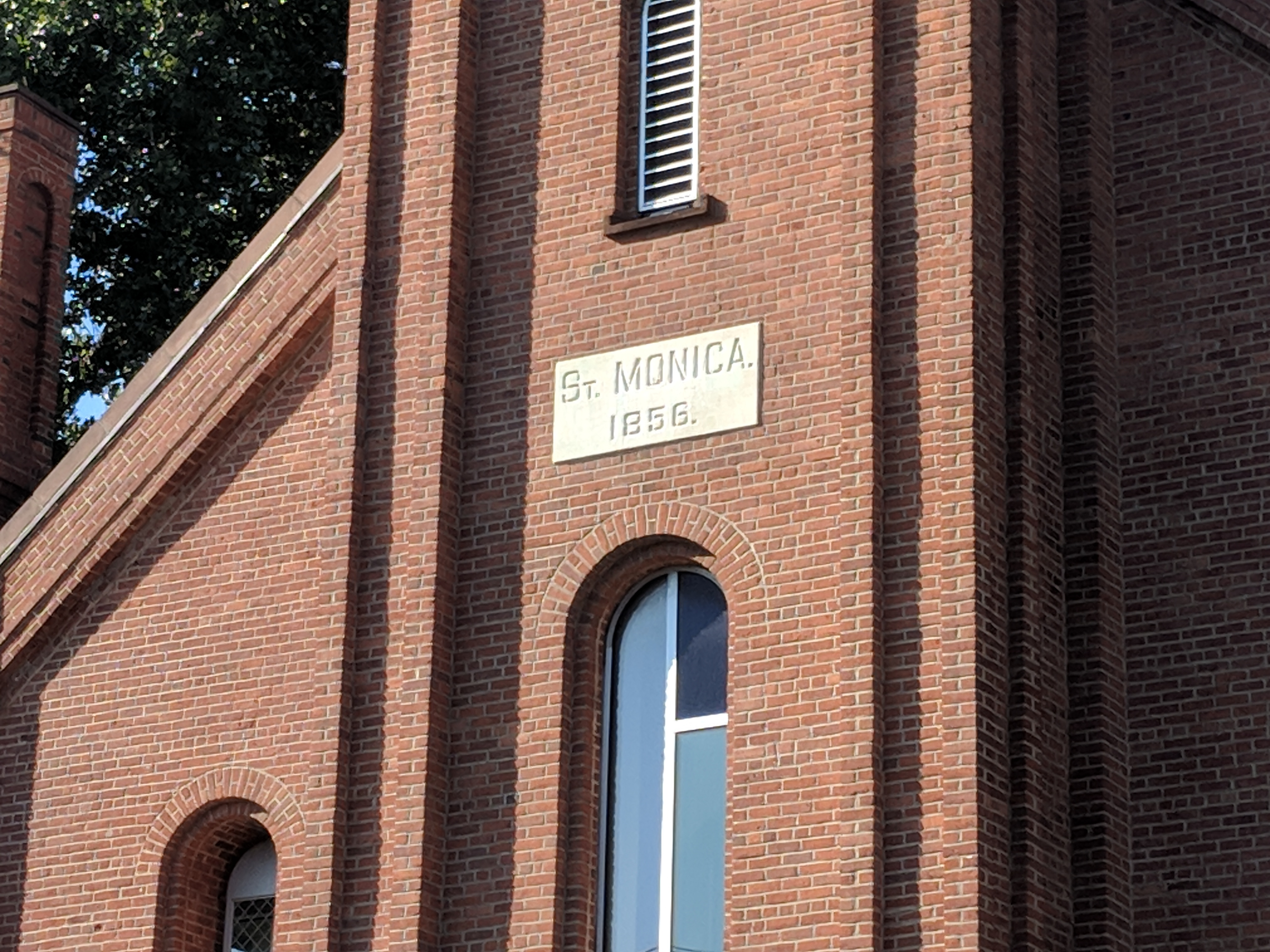 St Monica's Roman Catholic Church's central campanile is reminiscent of Romanesque architecture is one of the earliest surviving examples of 18th century early Romanesque revival architecture in N.Y.